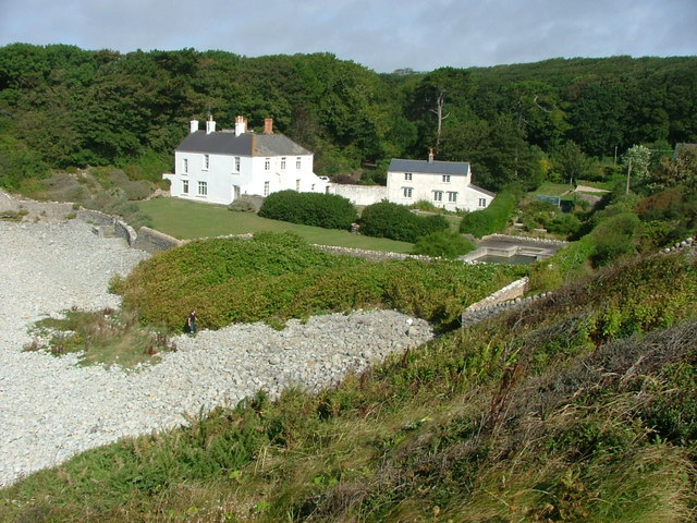 Tresilian. Tresilian Bay is named after Prince Silian who is reputed to have kept court there in the 3rd and 4th centuries. He was one of the first Pagans converted to Christianity and became a saint after his death.